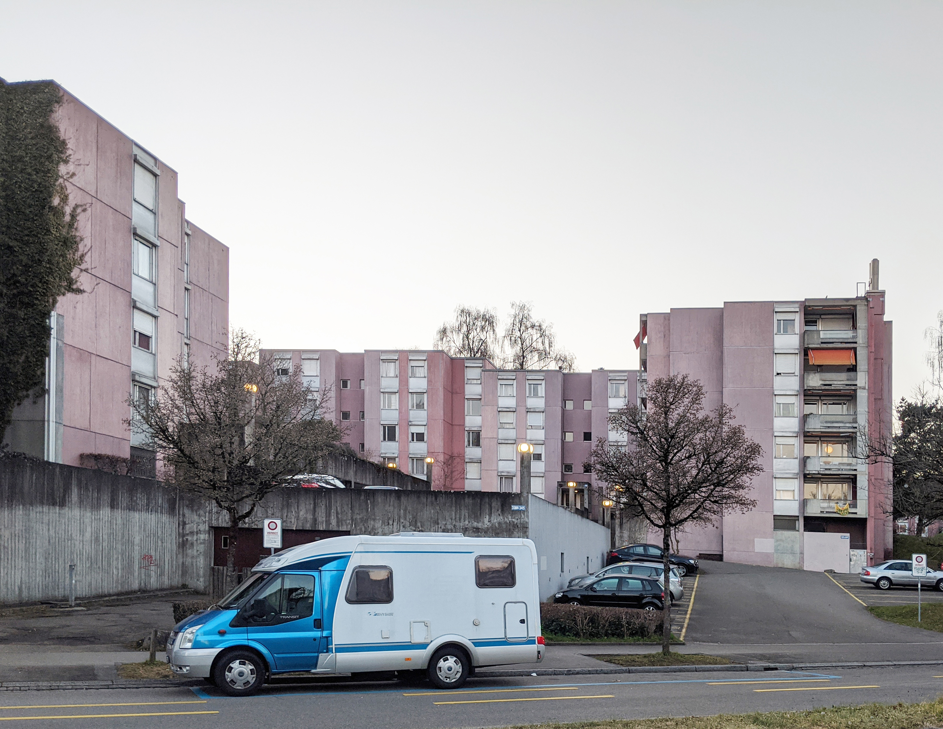 Siedlung Salzweg